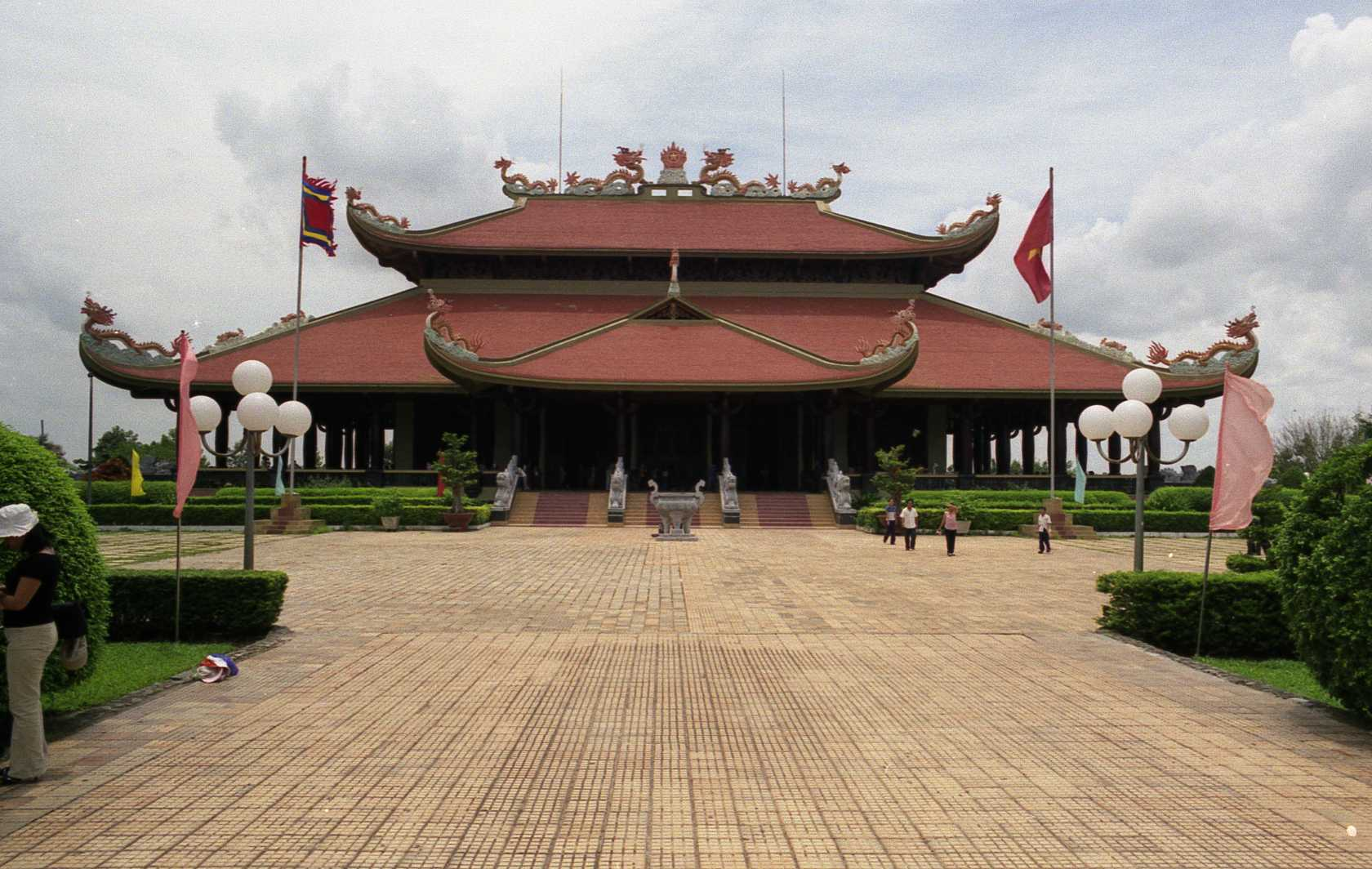 Ben Duoc Temple in Cu Chi, Ho Chi Minh City.